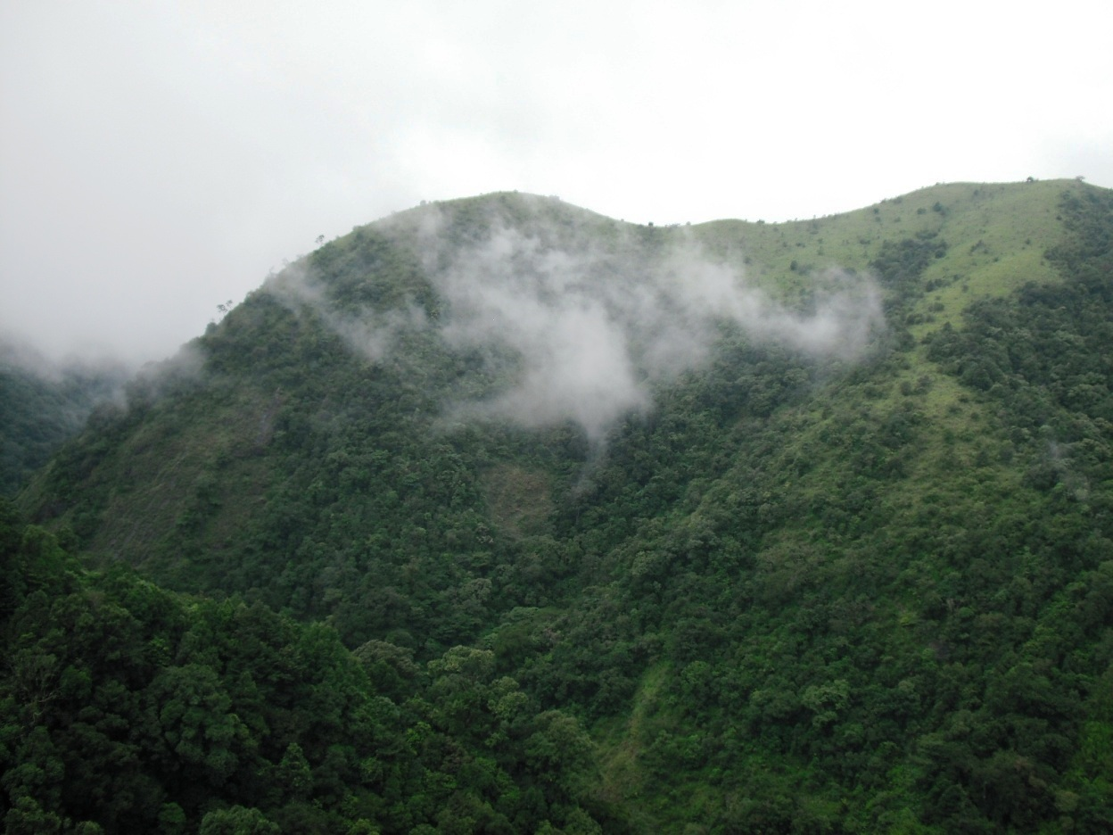 Silent Valley National Park